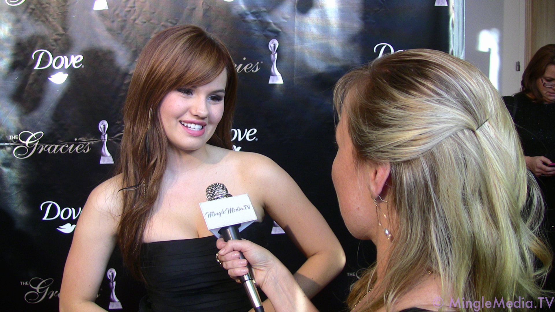 Debby Ryan at the 36th Annual Gracie Awards Gala